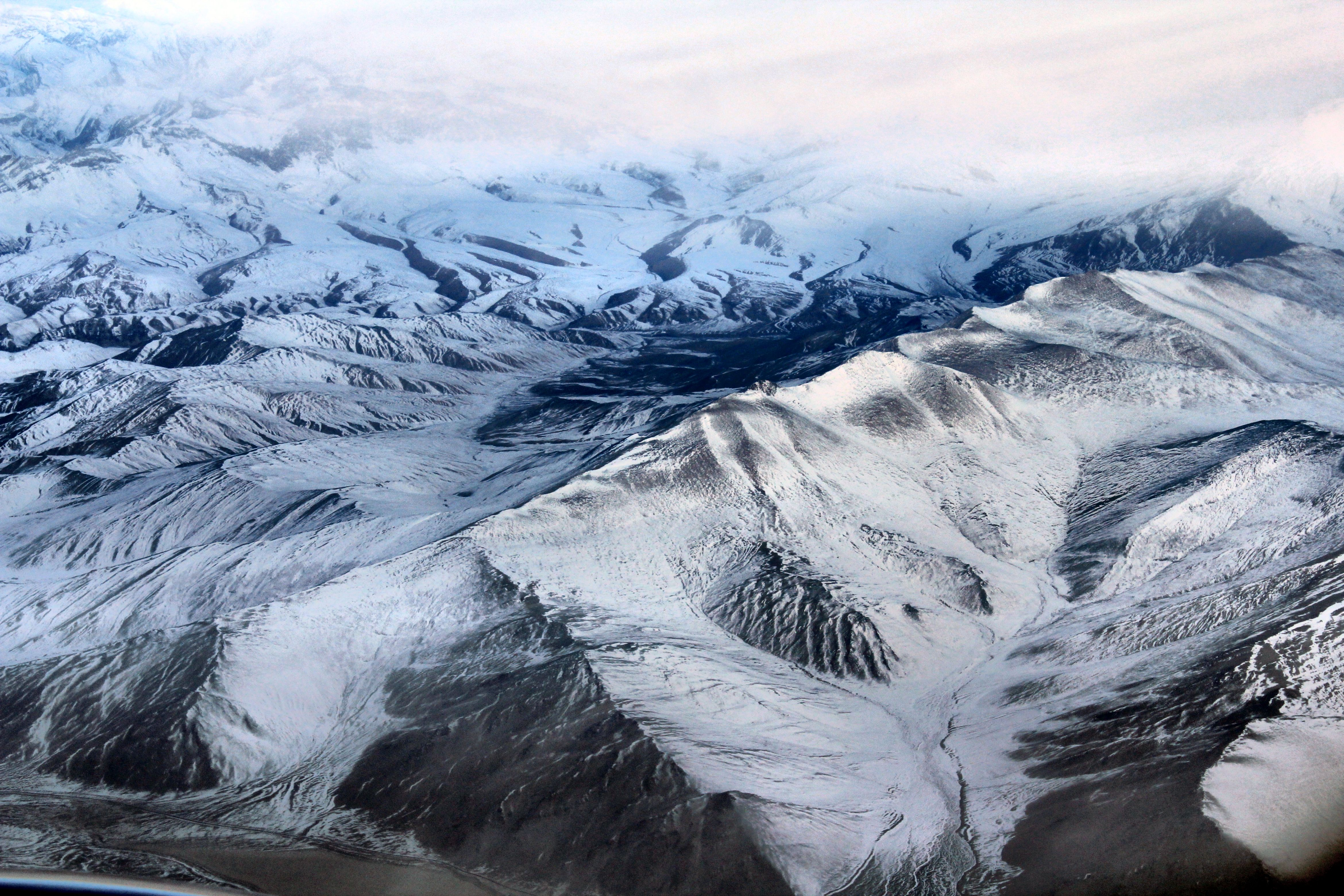 Aerial view of Himalaya From Delhi Leh Flight